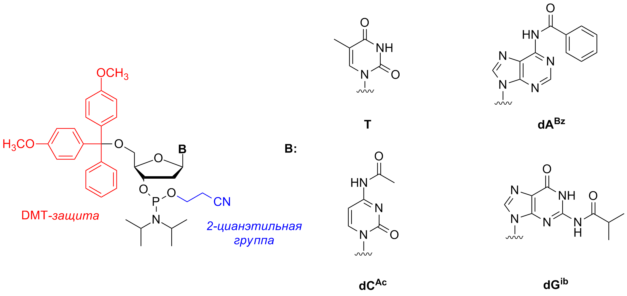 Nucleoside phosphoramidites